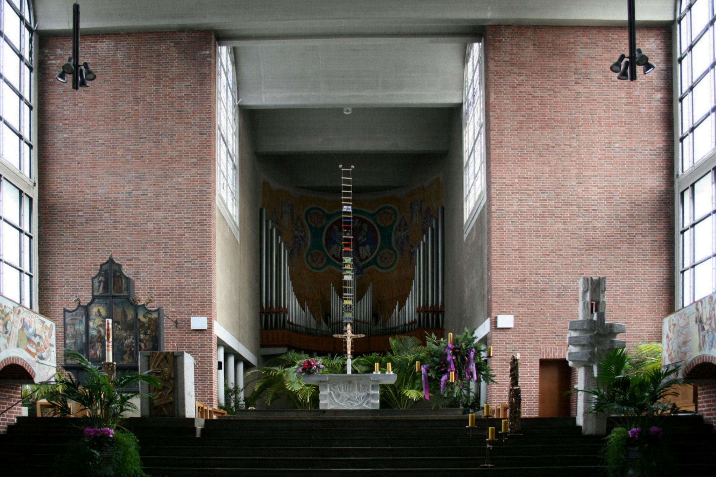 Cultural heritage monument No. 58 in Aldenhoven